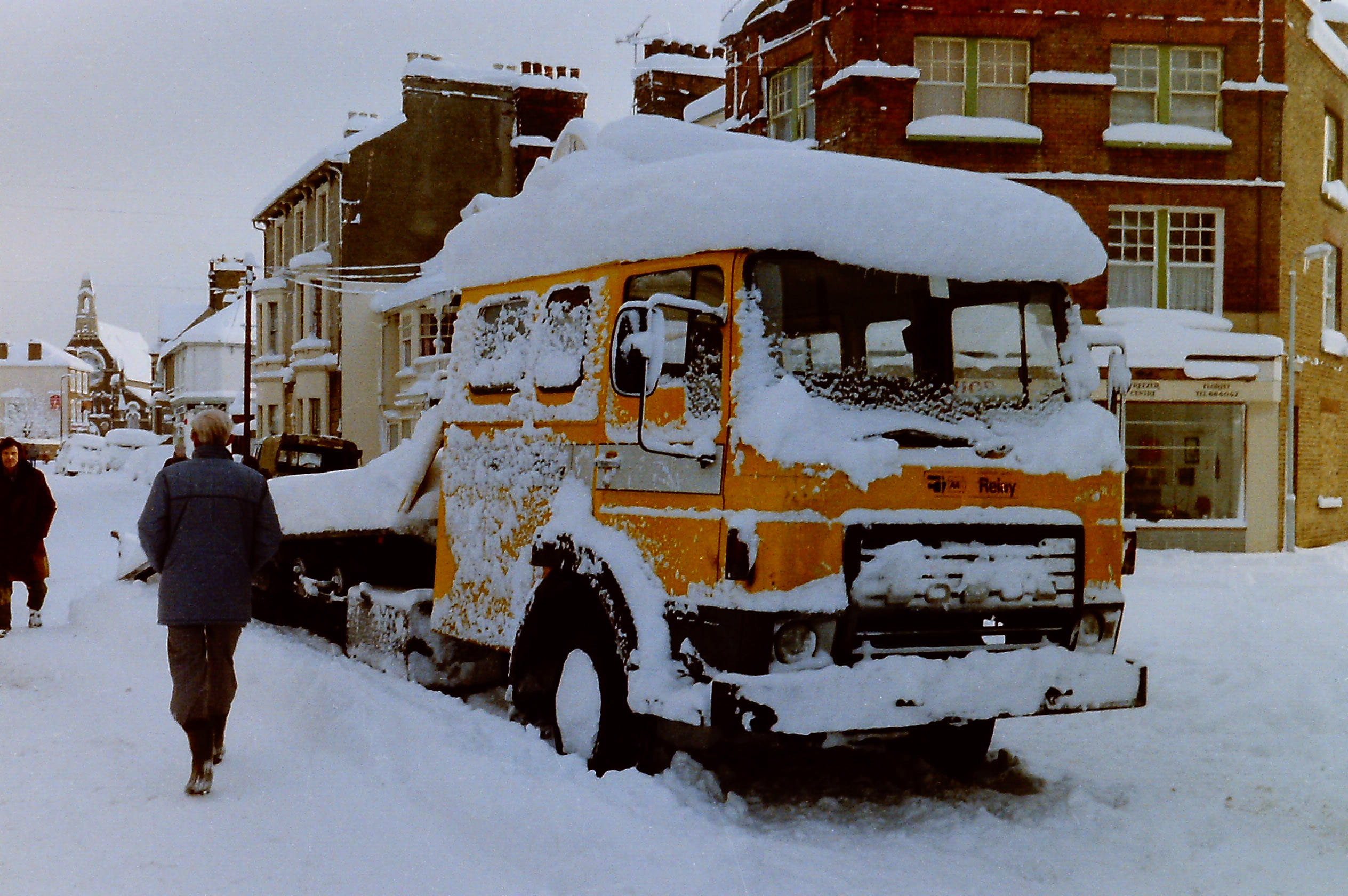 Heavy snow fell overnight on the 11th January 1987. The Isle of Sheppey was cut off from the mainland. This AA truck looks as though it has gone to the aid of the other truck.